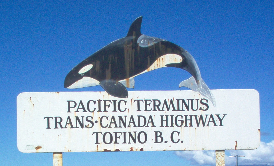 Sign reads, "Pacific Terminus / Trans-Canada-Highway / Tofino B.C." Taken by Denelson83 on July 16, 2005.